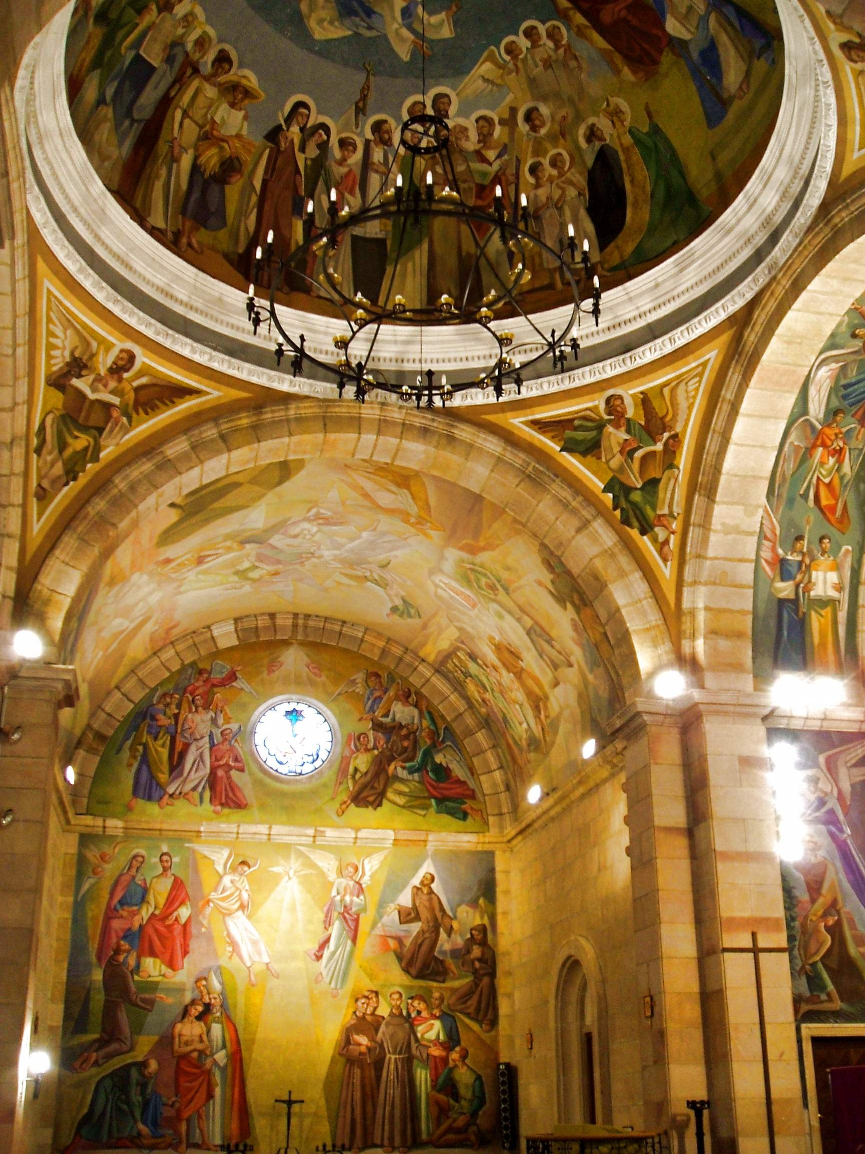 Santuario de Nuestra Señora de Linarejos, en Linares (Jaén, Andalucía, España)